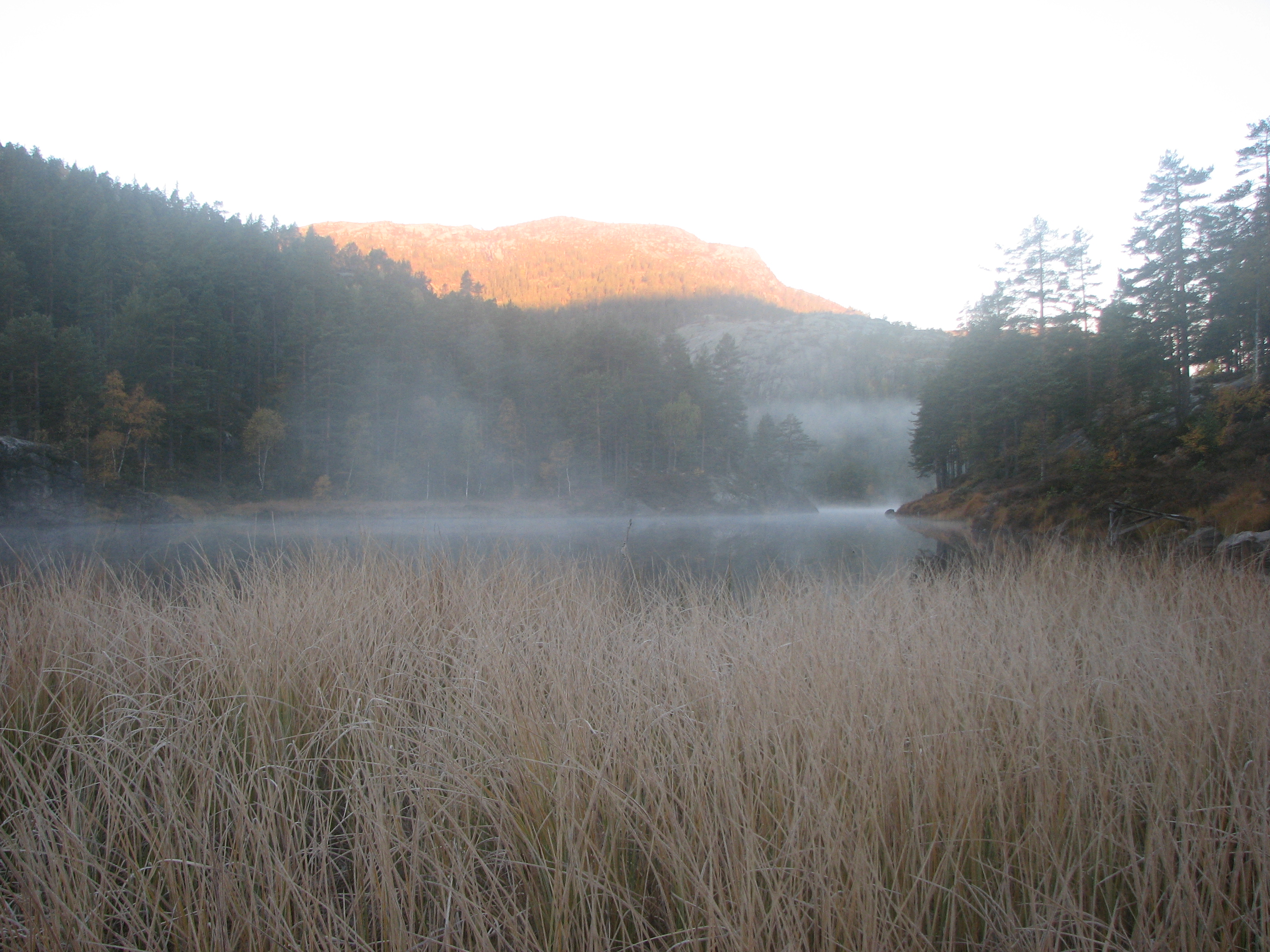 Grytdalen nature reserve